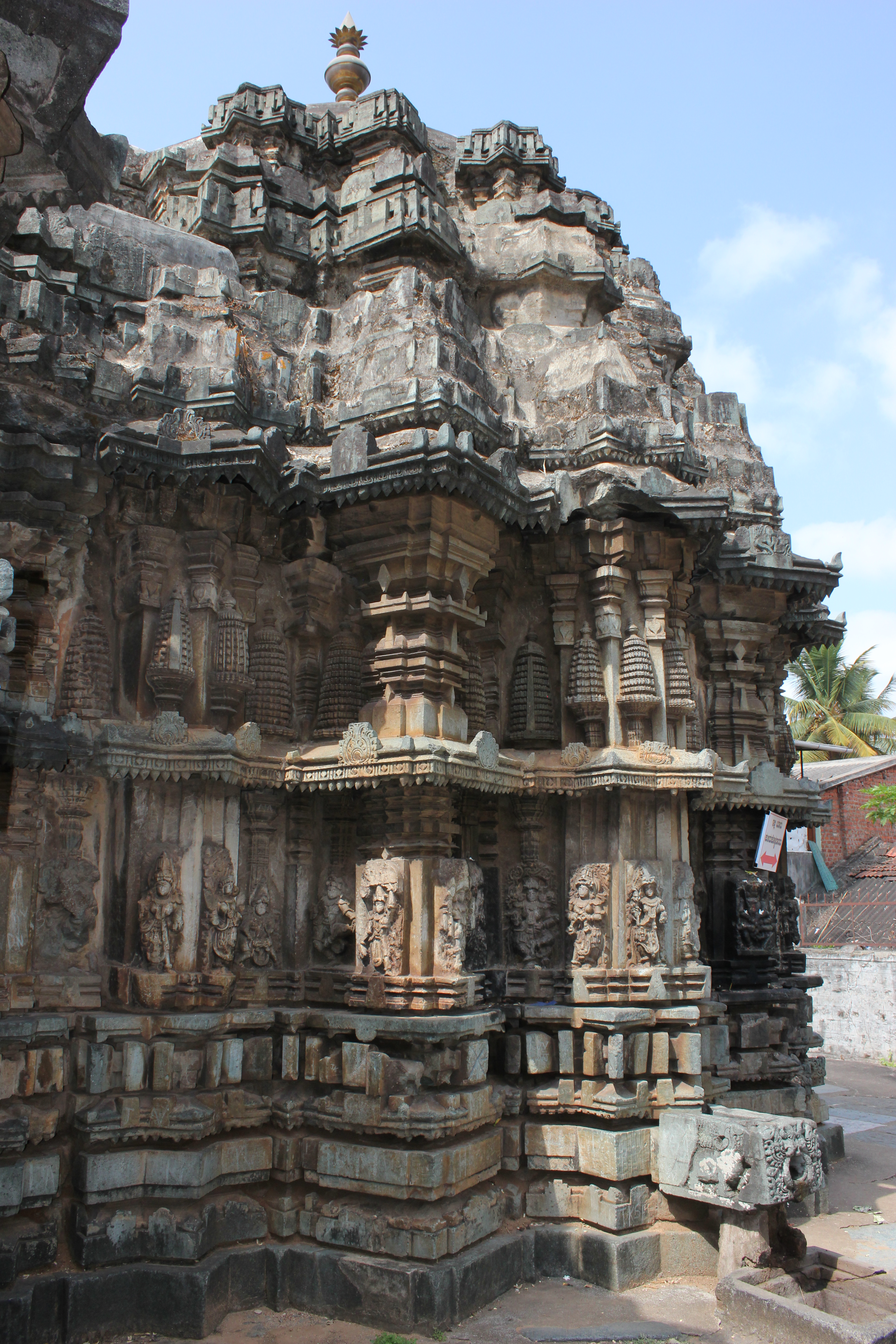 This photograph was taken by me (Dinesh Kannambadi) in the Lakshmi Narasimha temple at Bhadravati, Shimoga district, Karnataka state, India. The temple was built in 13th century during the rule of the Hoysala Empire.